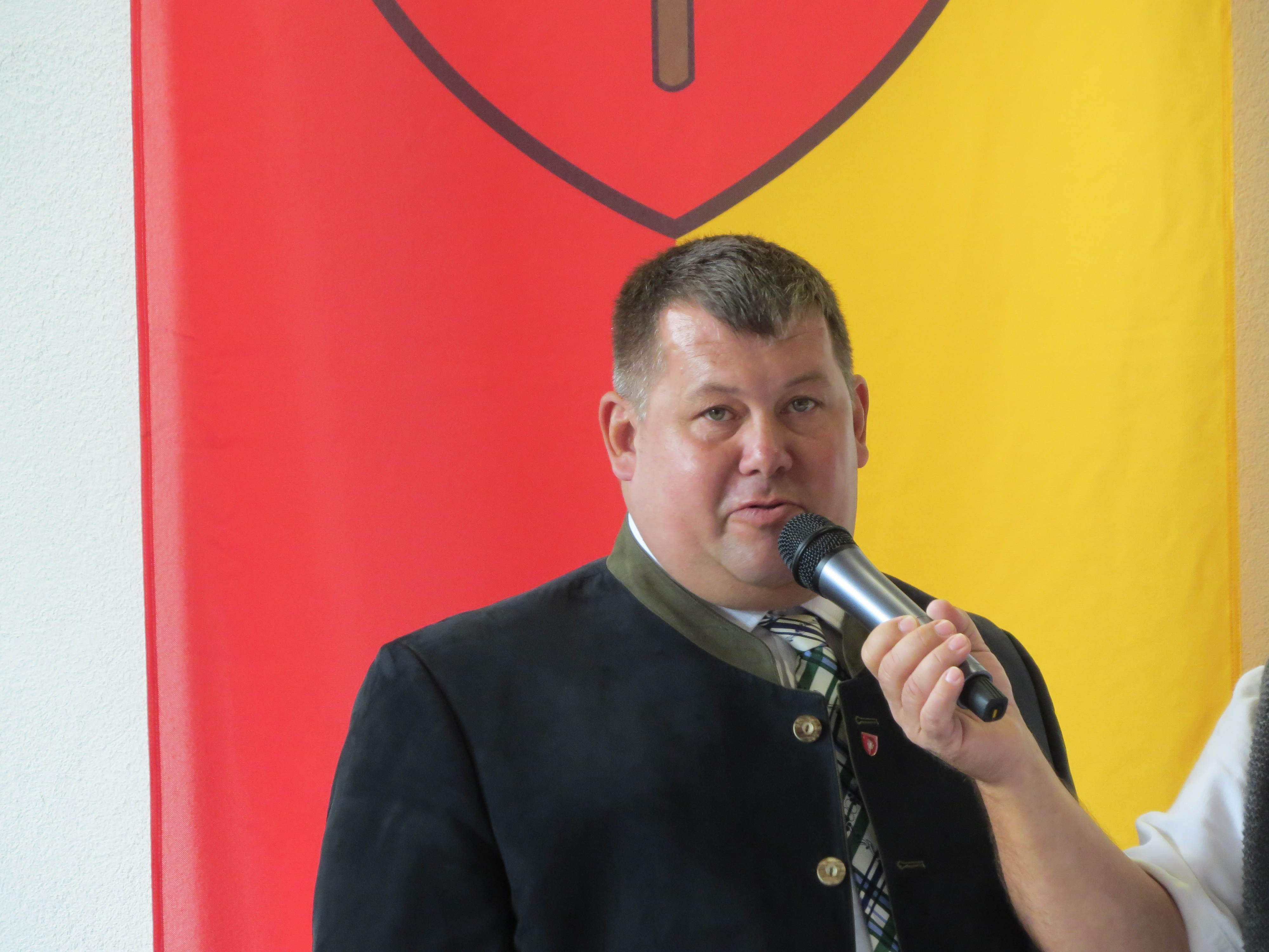 Arthur Rasch at Opening ceremony of new fire station Hofstetten-Grünau, Austria